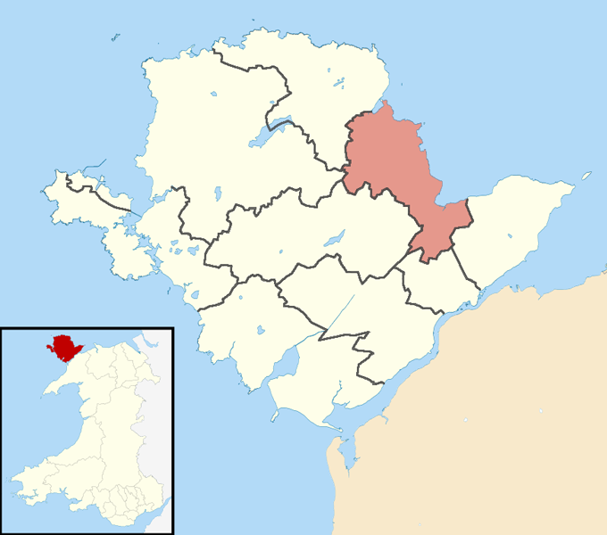 Location map of Lligwy electoral ward on the island of Anglesey / Ynys Mon